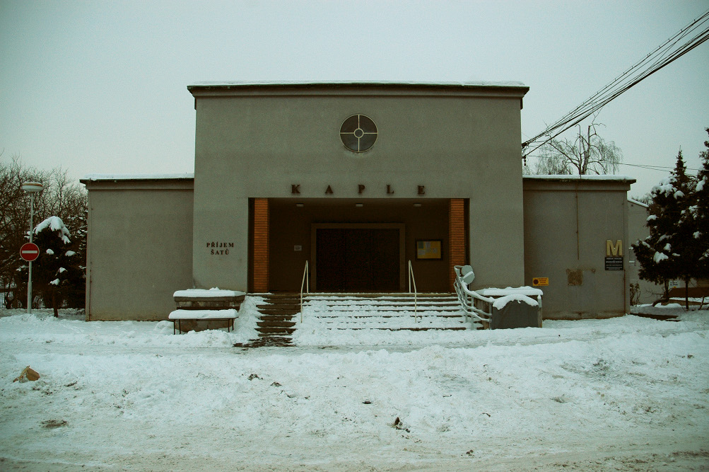 Chapel of St. Wenceslas, the area of the Thomayer University Hospital, Prague, Czech Republic